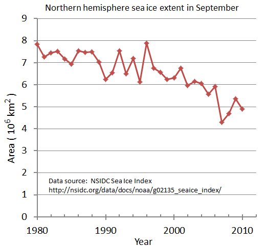 Northern Hemisphere Sea Ice Extent in September Data source: NSIDC Sea Ice Index See also: NOAA webpage on Arctic Change